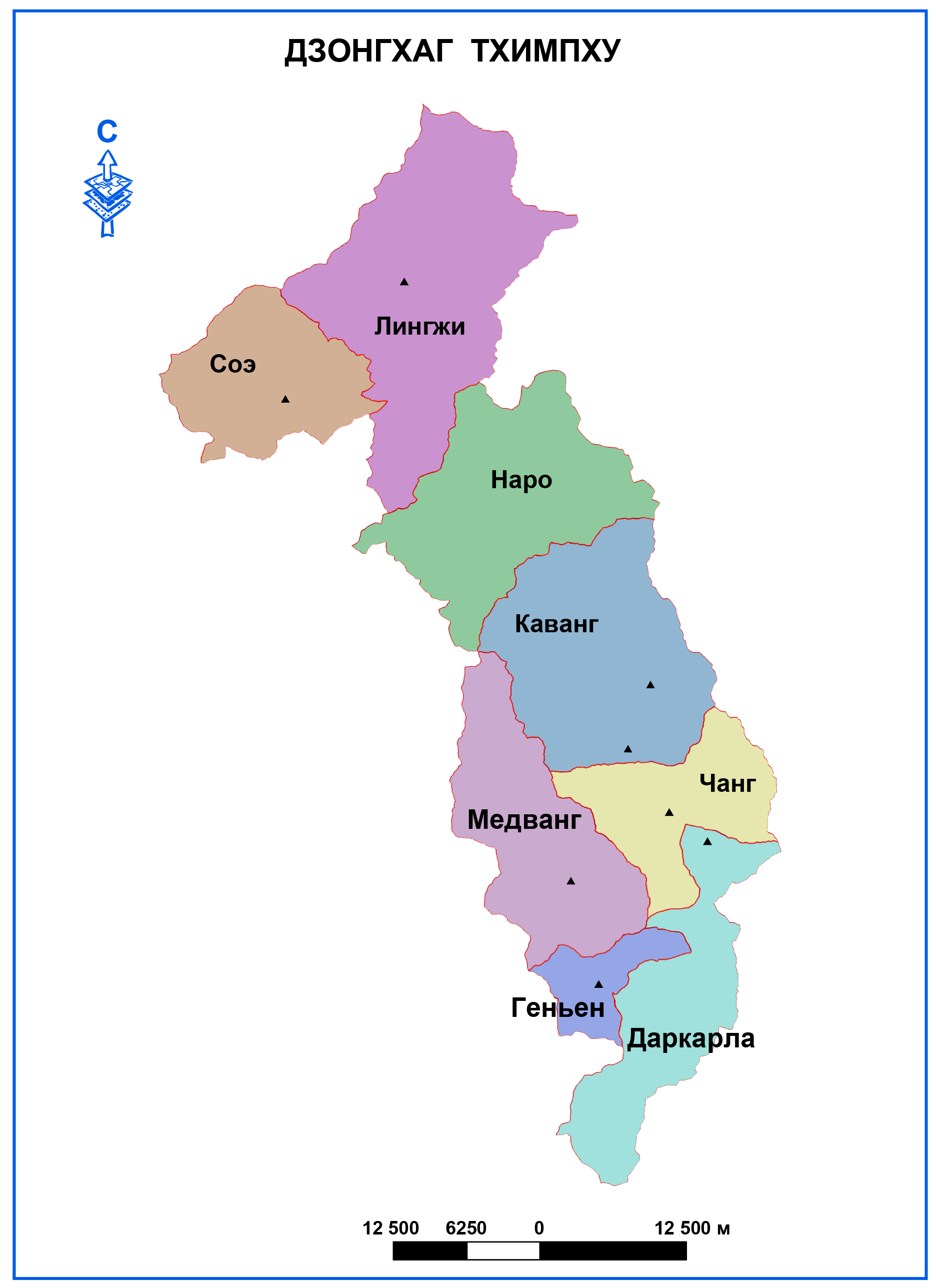 Thimphu District map, Bhutan, 2011